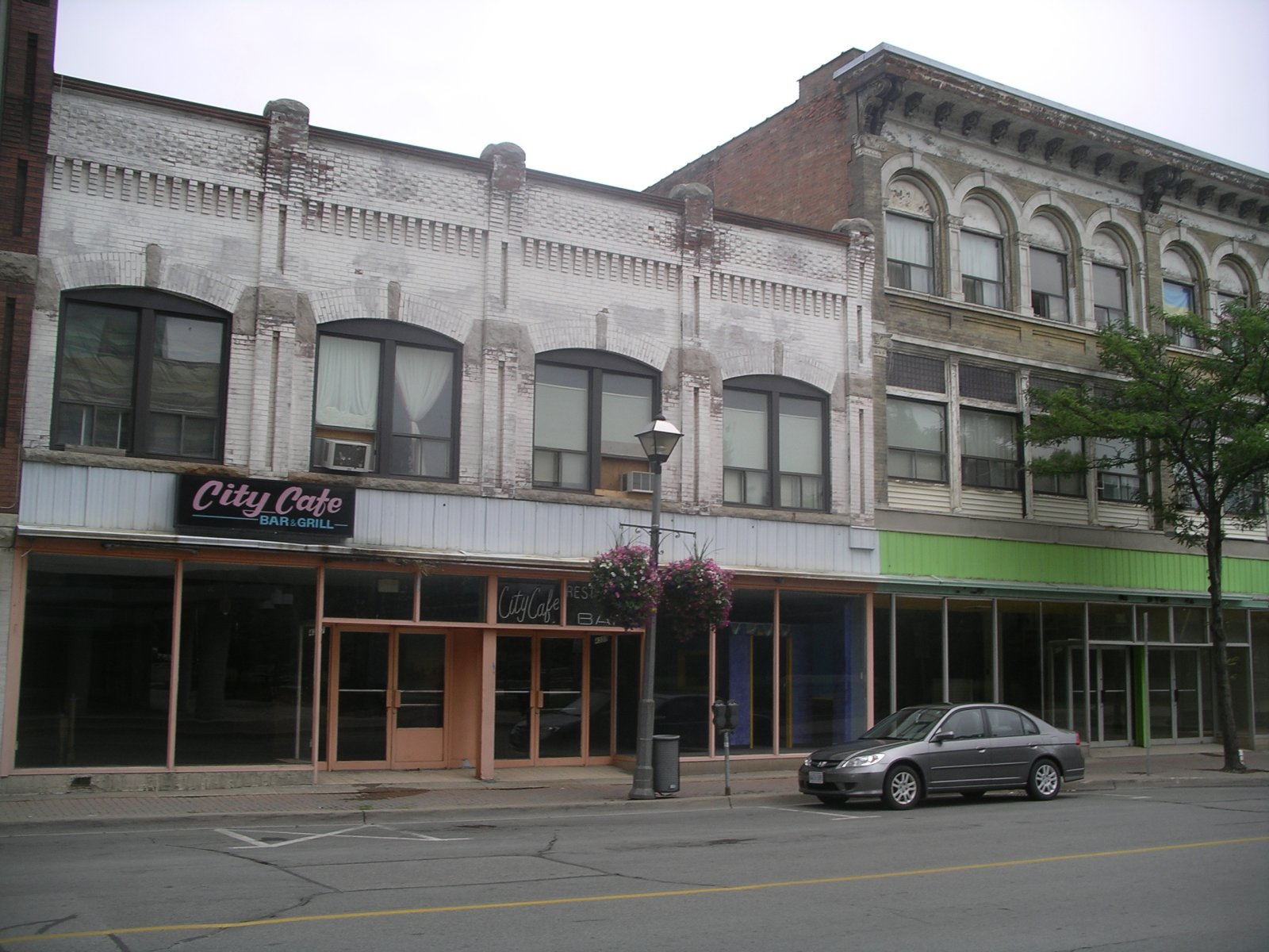 Image of downtown decay on Queen street, Niagara Falls, Ontario